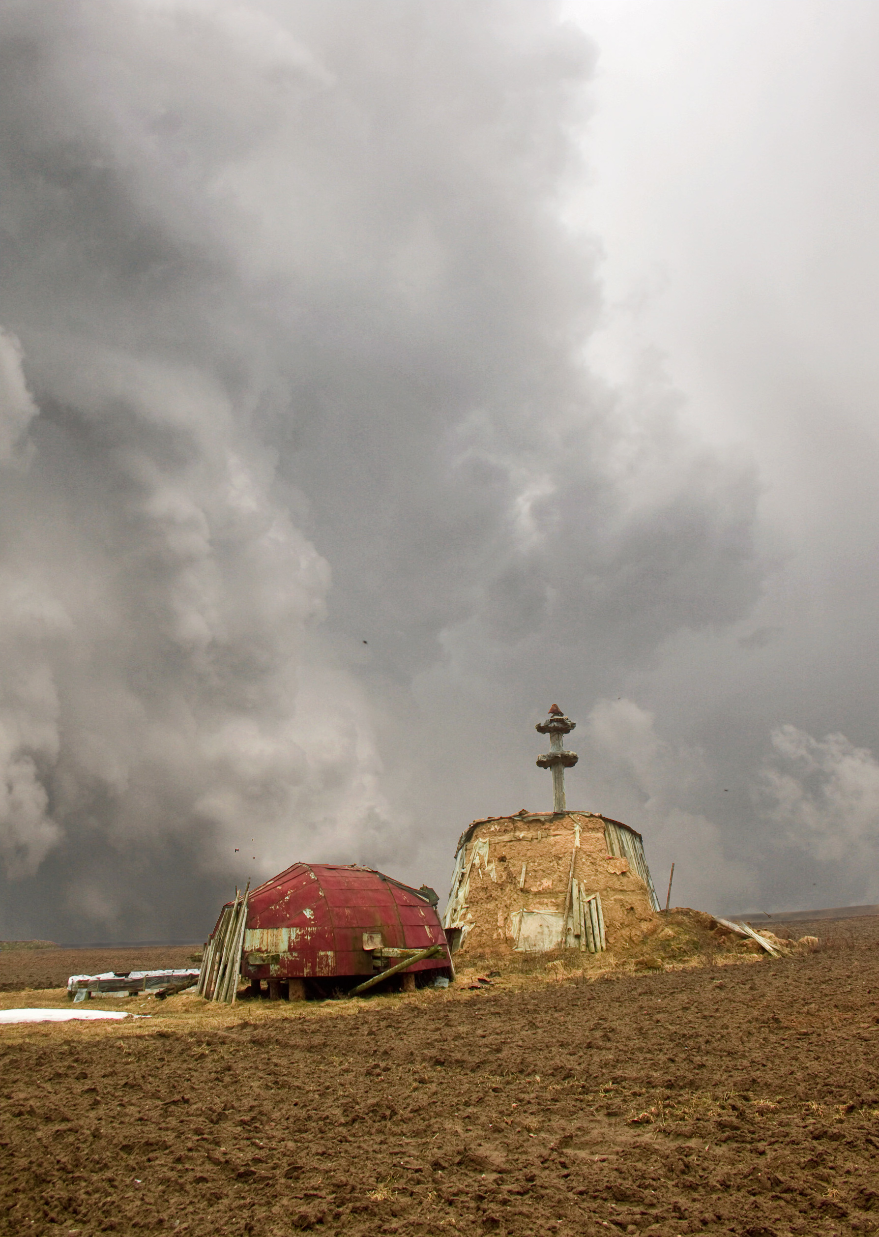 Melniai windmill, Lithuania